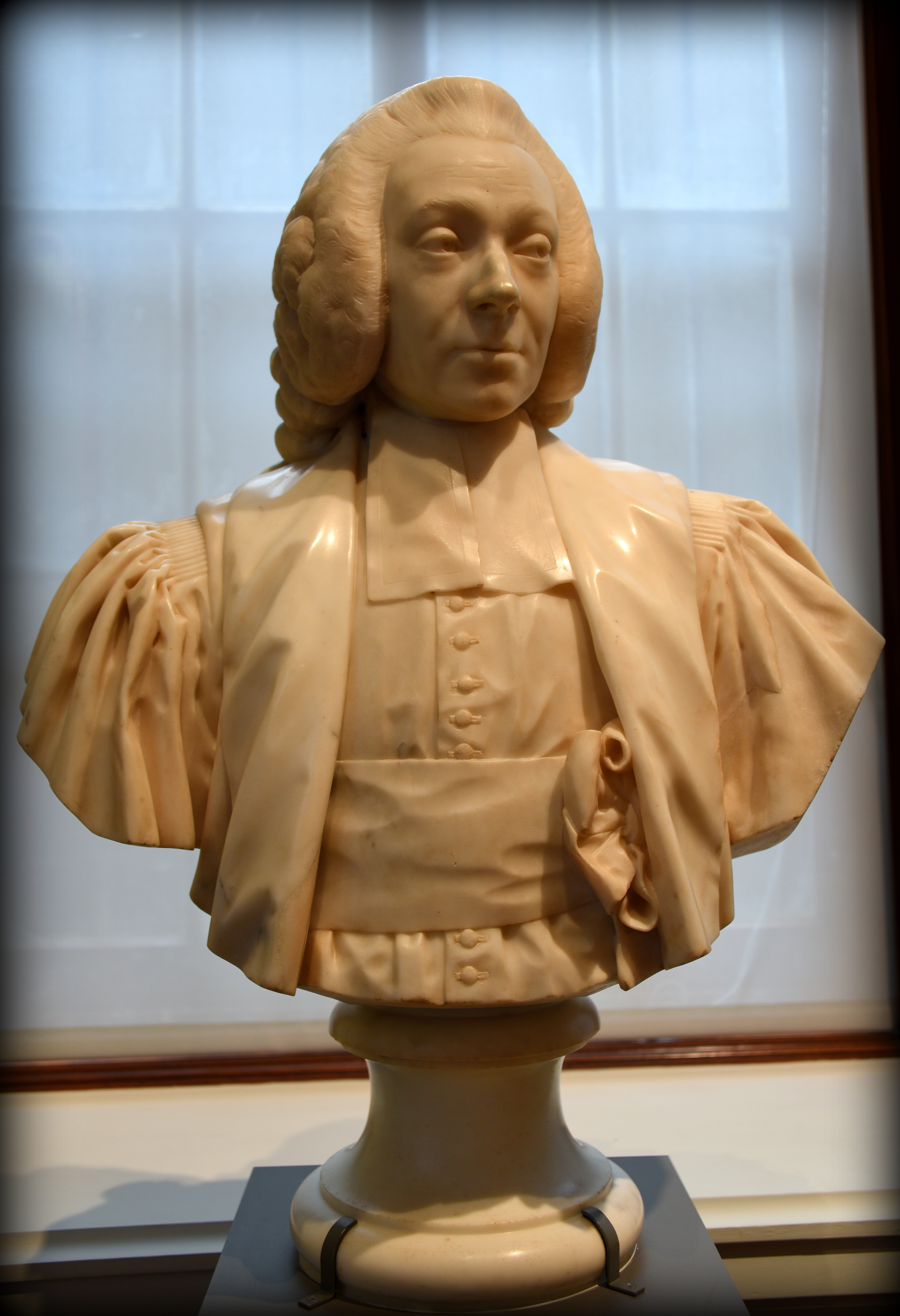 Marble bust of the Marquis de Miromesnil, 1775 CE. From Paris, France. By Jean-Antoine Houdon. The Victoria and Albert Museum, London. Purchased with funds from the Captain H. B. Murray Bequest.